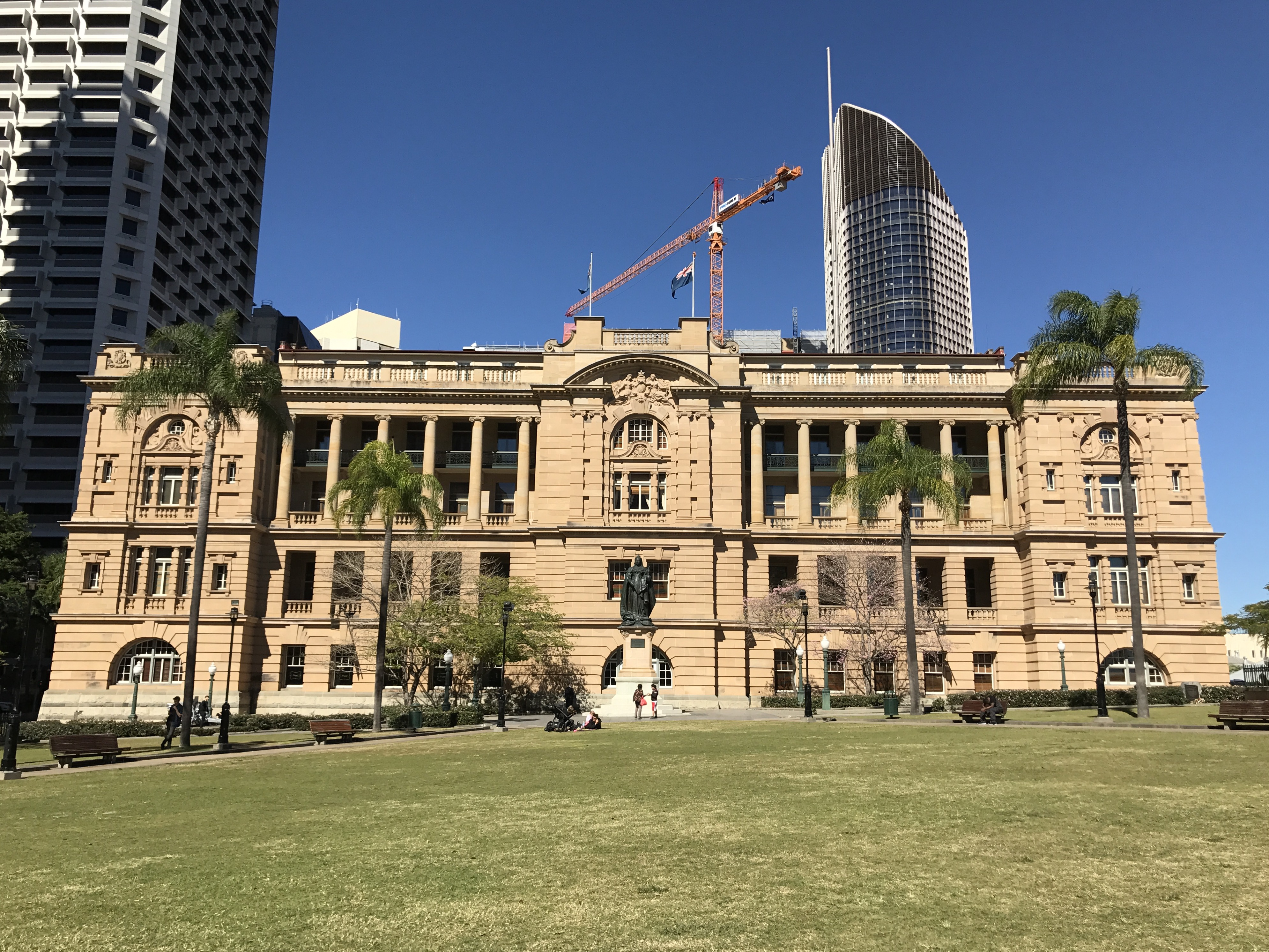 Land Administration Building, Queens Gardens facade, Brisbane